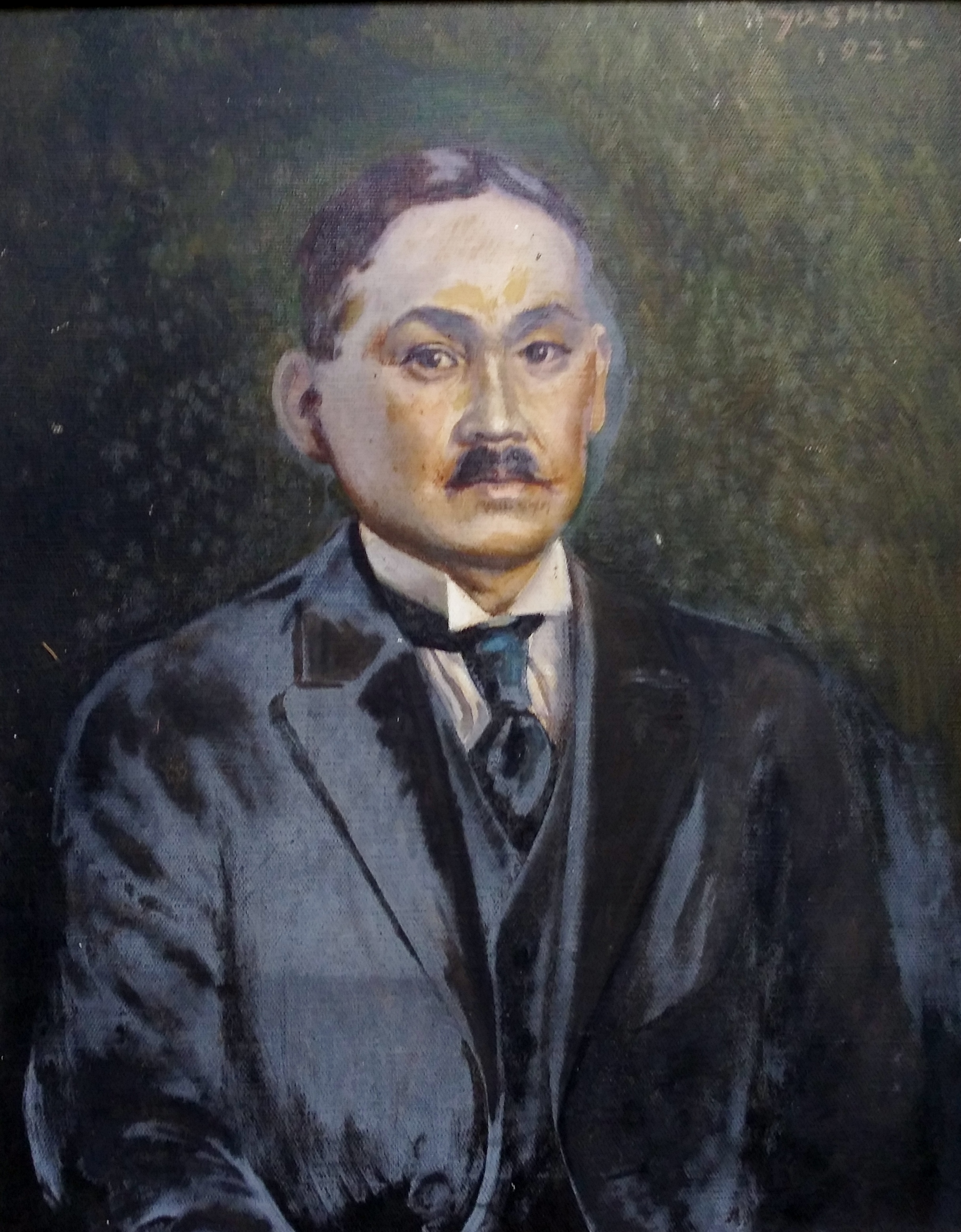 A rare self-portrait in oil paint by Yoshio Markino, signed and dated upper right, "Yoshio 1925" painted during Yoshio's time in America.